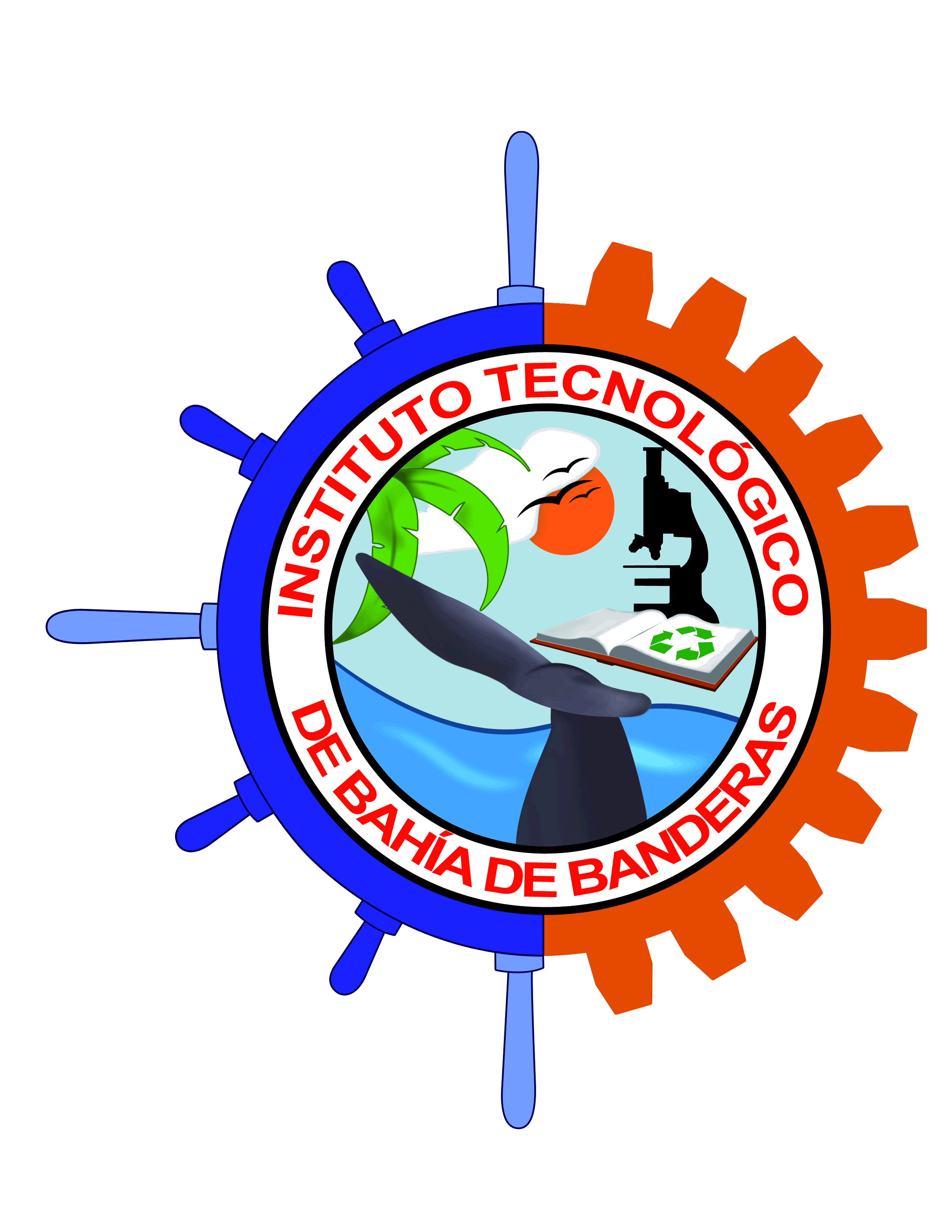 Coat of arms of the Instituto Tecnológico de Tepic